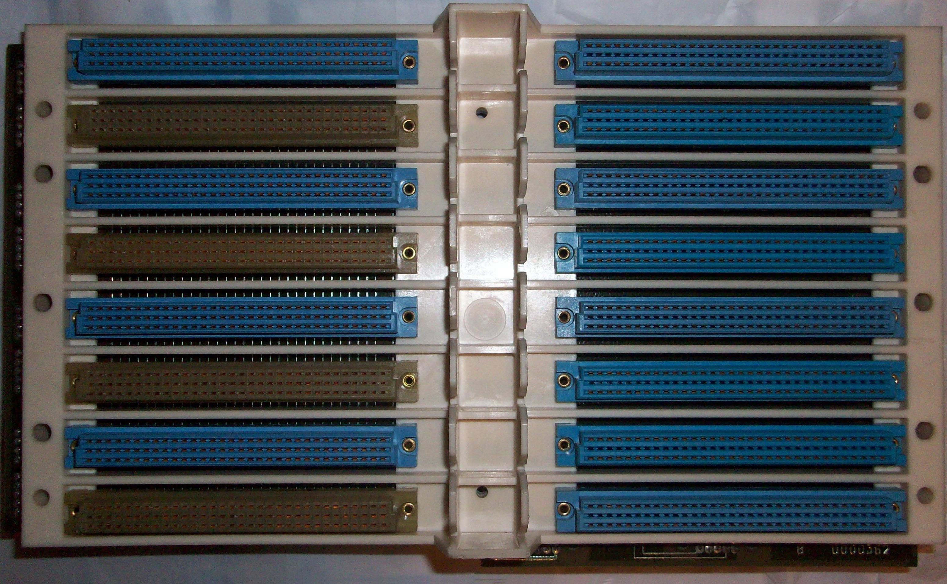 Soviet SM-EVM SM-1425 bus slot